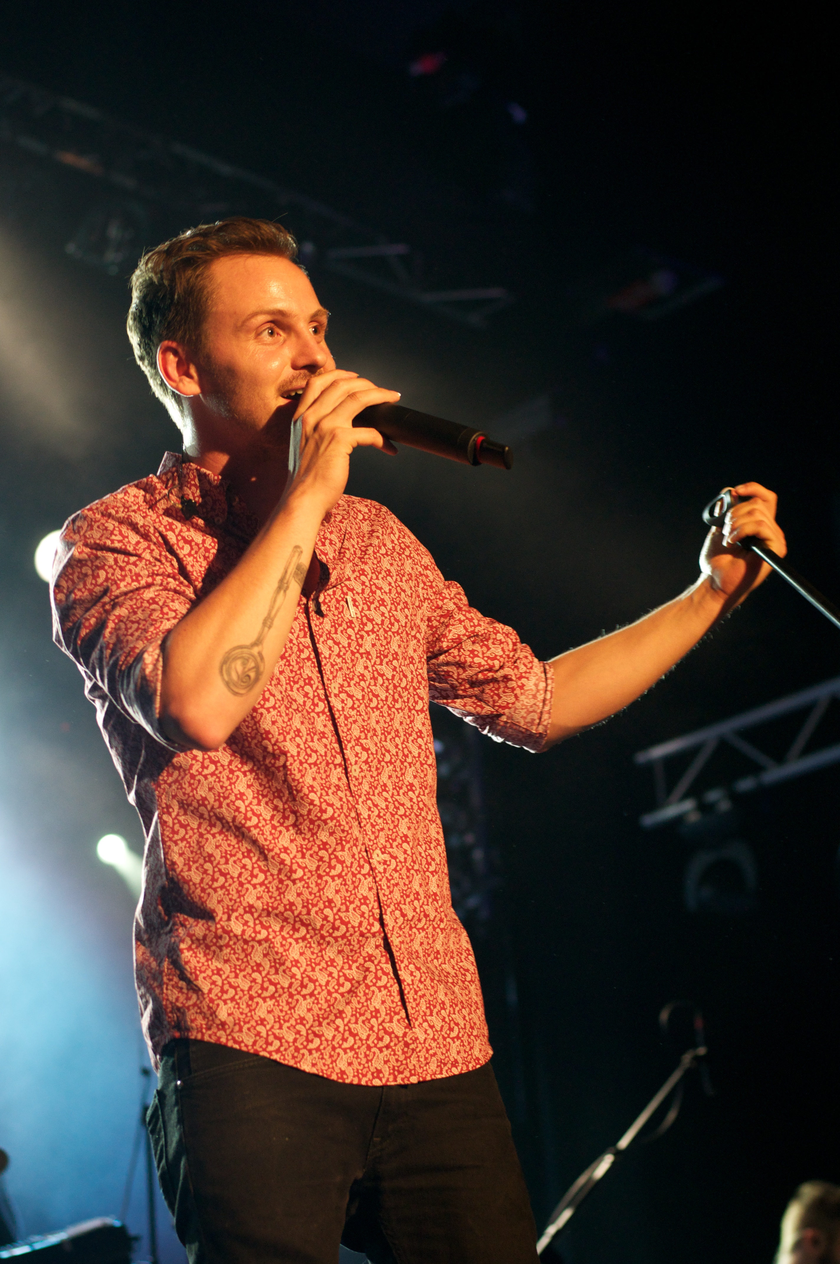 Maxim performing at Reeperbahn Festival 2014